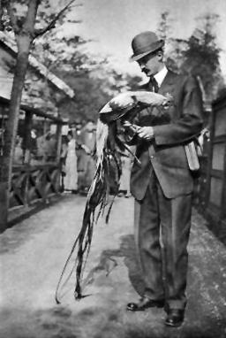 William Beebe with a long-tailed cockerel in Japan, during his expedition across Asia to document the world's pheasant species.